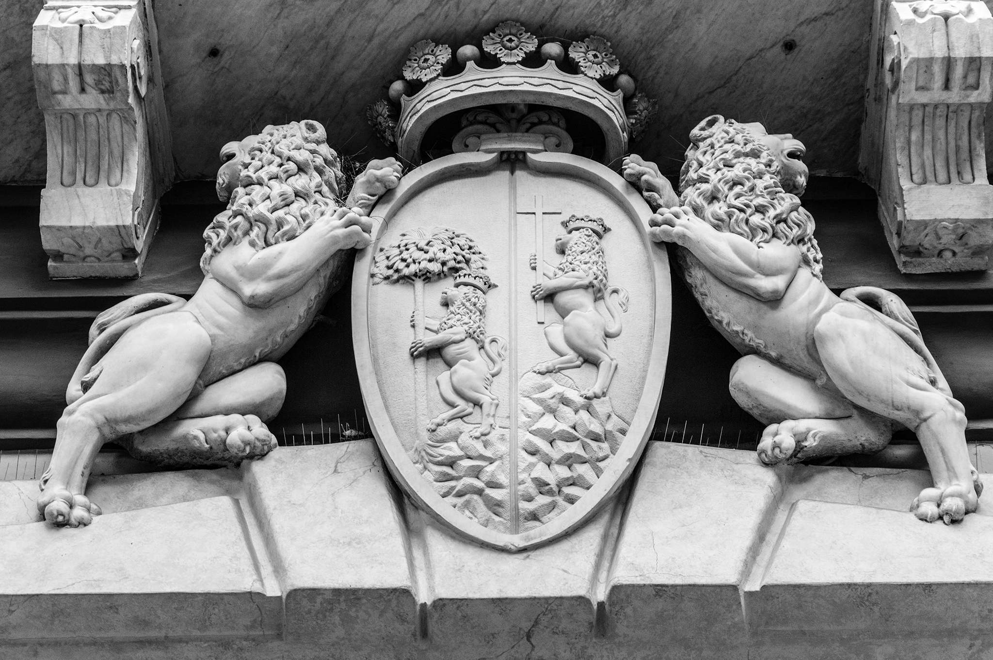 Decoration on entrance of Red Palace This is a photo of a monument which is part of cultural heritage of Italy.